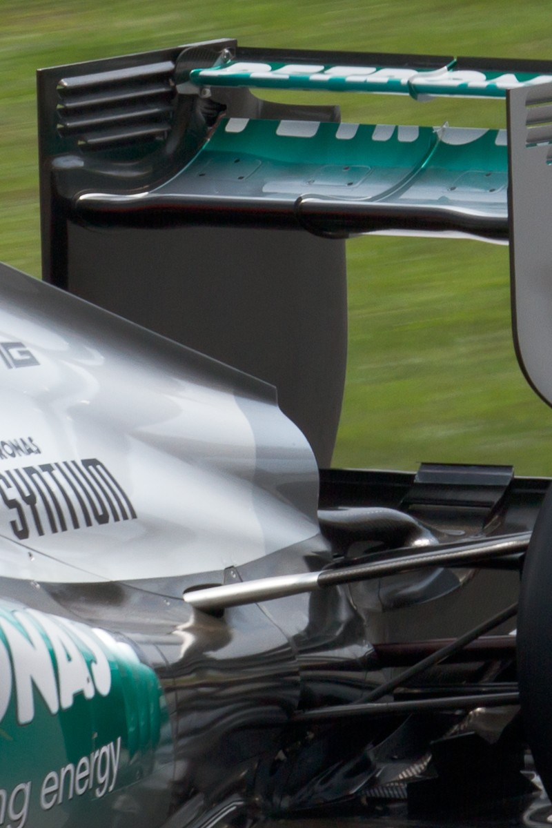 Formula One 2012 Rd.2 Malaysian GP: Mercedes F1 W03's air-intake on rear wing